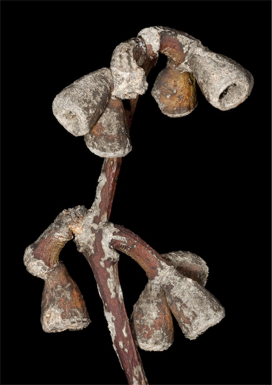 Fruit of Eucalyptus grossa, photographed at the Beehive Loop Track, 24km direct line WNW of Bromus, Western Australia